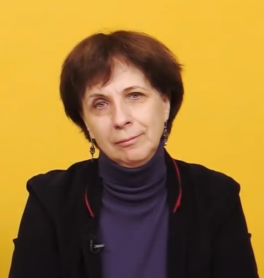 Russian human rights advocate and journalist Zoya Svetova at the Navalny LIVE program It Will Be Worse #23